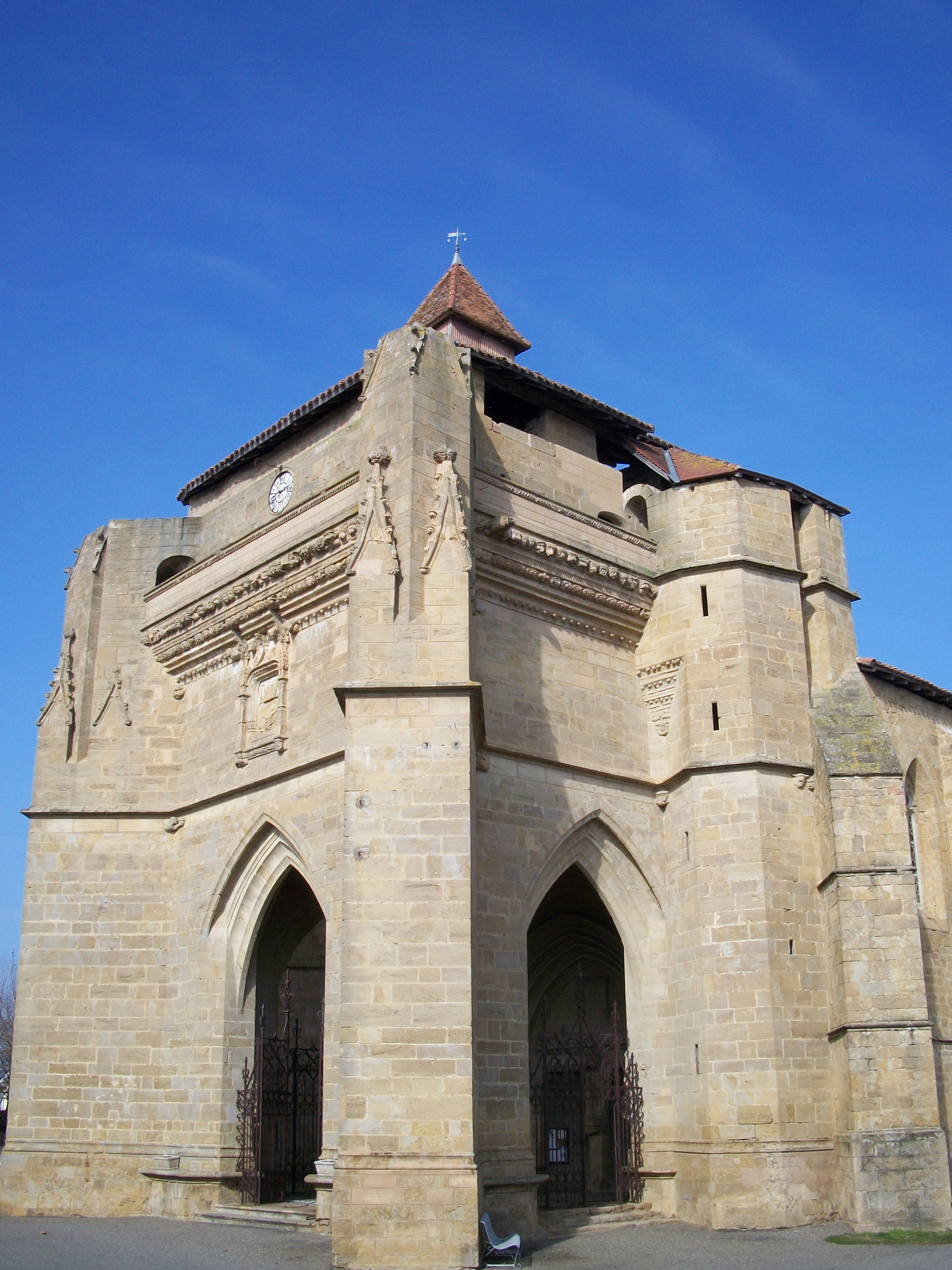 Beaumarchés Church, Gers, France